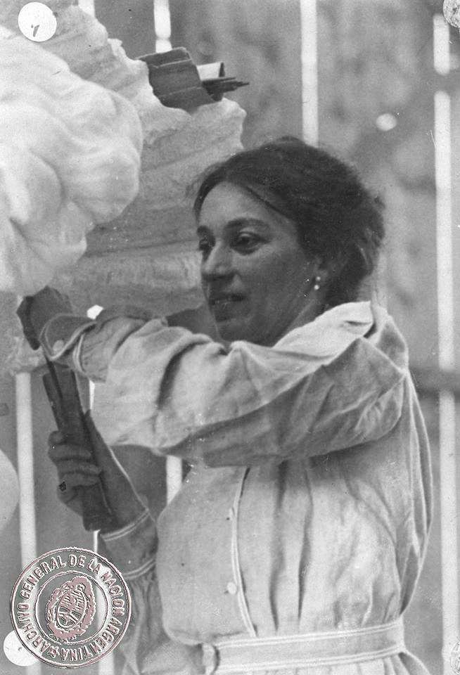 Argentine sculptress, Lola Mora, working at her studio in Buenos Aires.